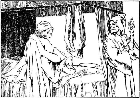 Illustration by Otto Ubbelohde to the fairy tale Godfather Death